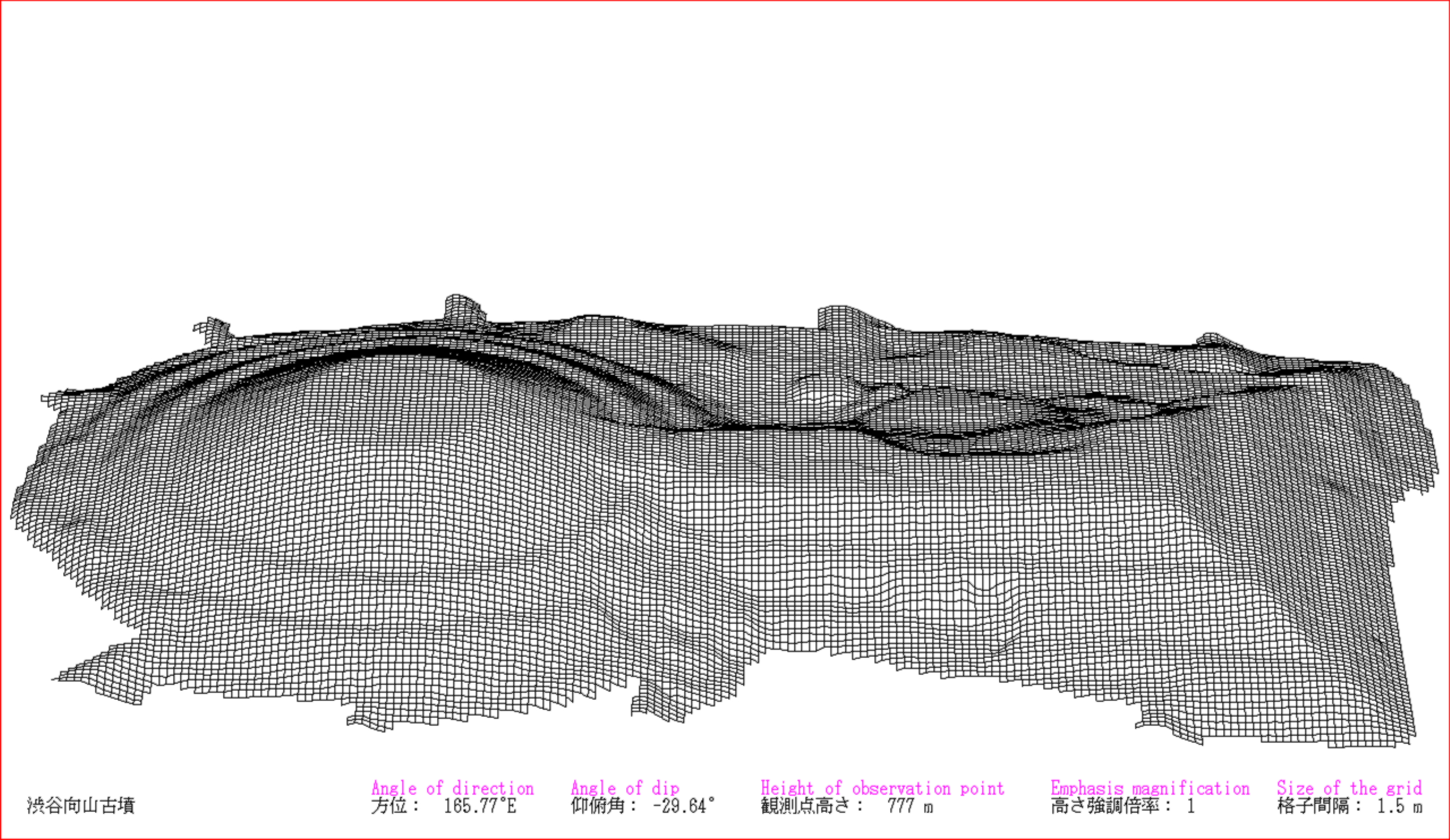 I who am a contributor drew the picture by a software which developed by myself. The survey map which I referred to depends on "「景行天皇 山邊道上陵整備工事予定区域の事前調査」『書陵部紀要 陵墓篇第68号』宮内庁書陵部 (2017年）". This is a drawing of present situation (not a drawing of a restored mound). The drawing depends on wire frame. Perspective projection.